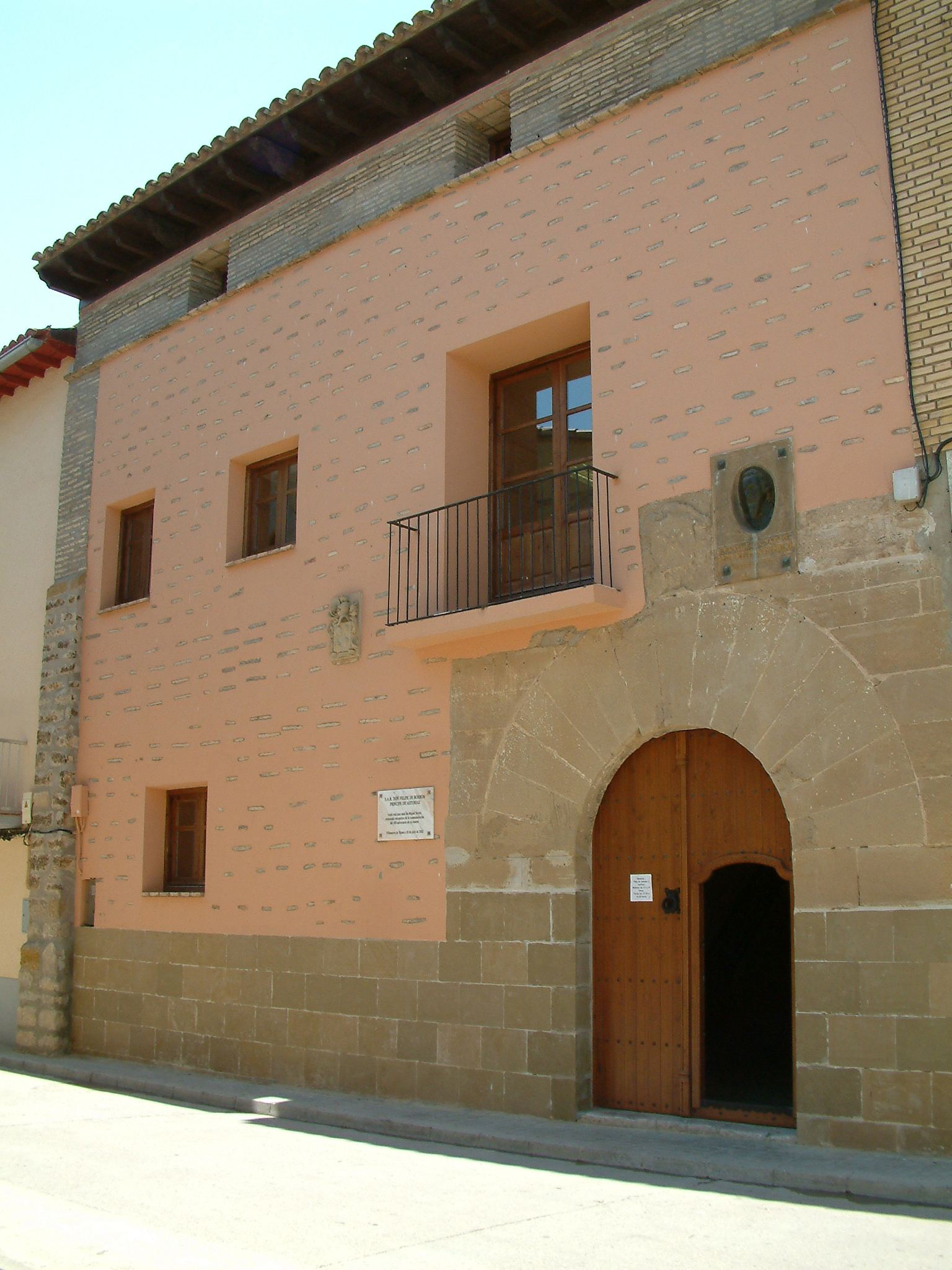 Façade of the house where Michael Servetus was born, now a museum and exhibition hall